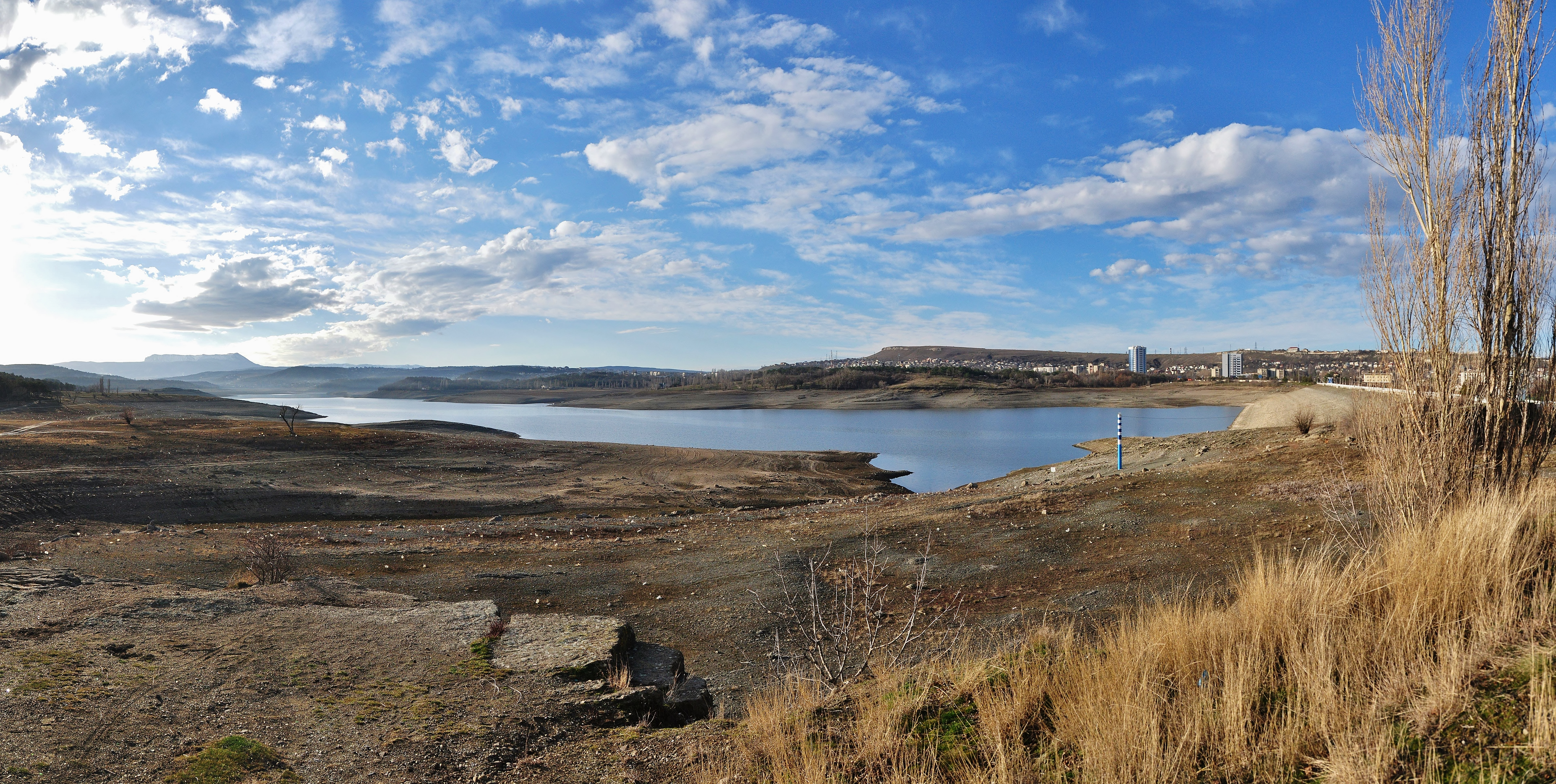 Simferopol Reservoir on the Salgir River. Critically low level of water in February 2013